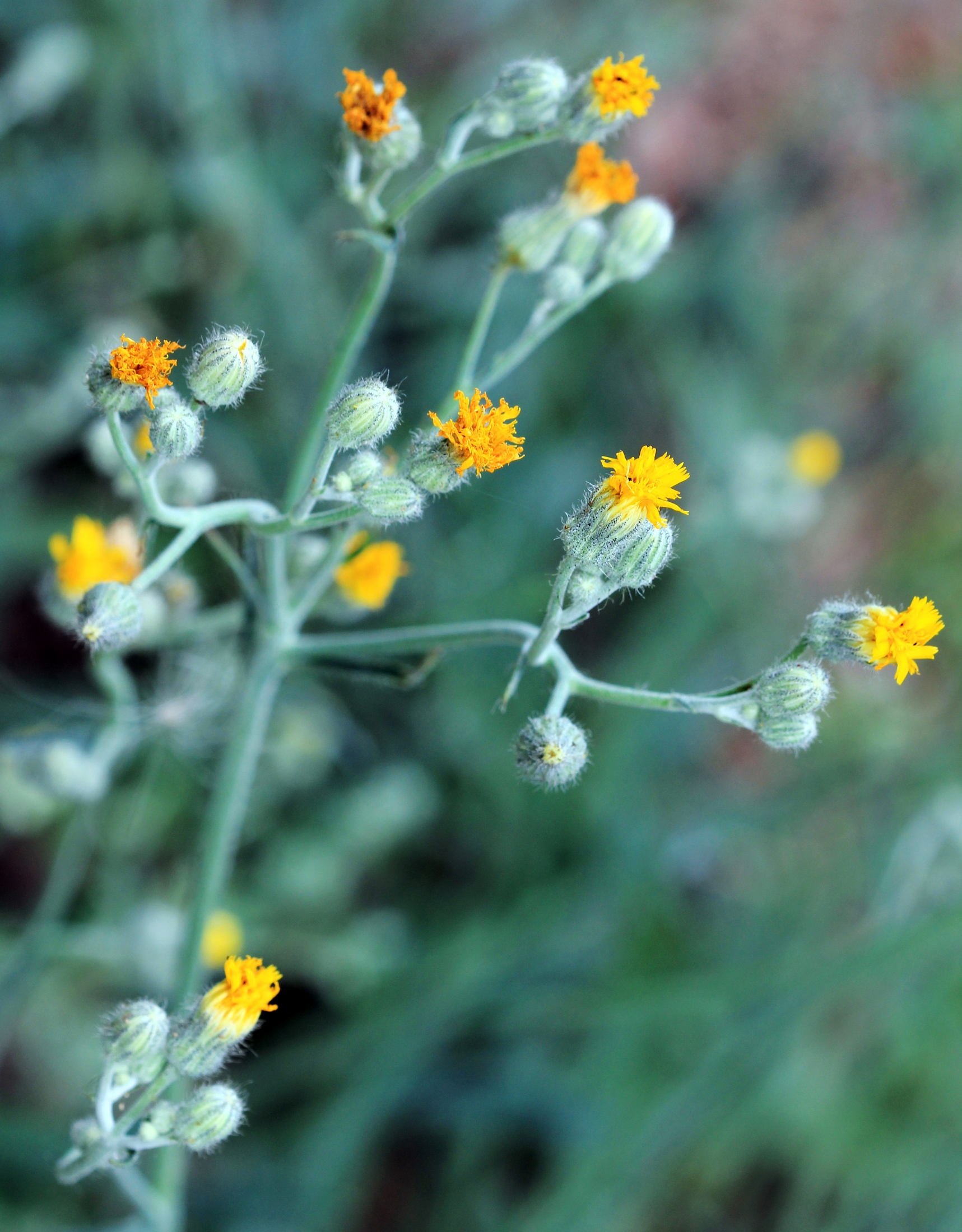 Flowers of plant Hieracium echioides from the Botanical Gardens of Charles University, Prague, Czech Republic